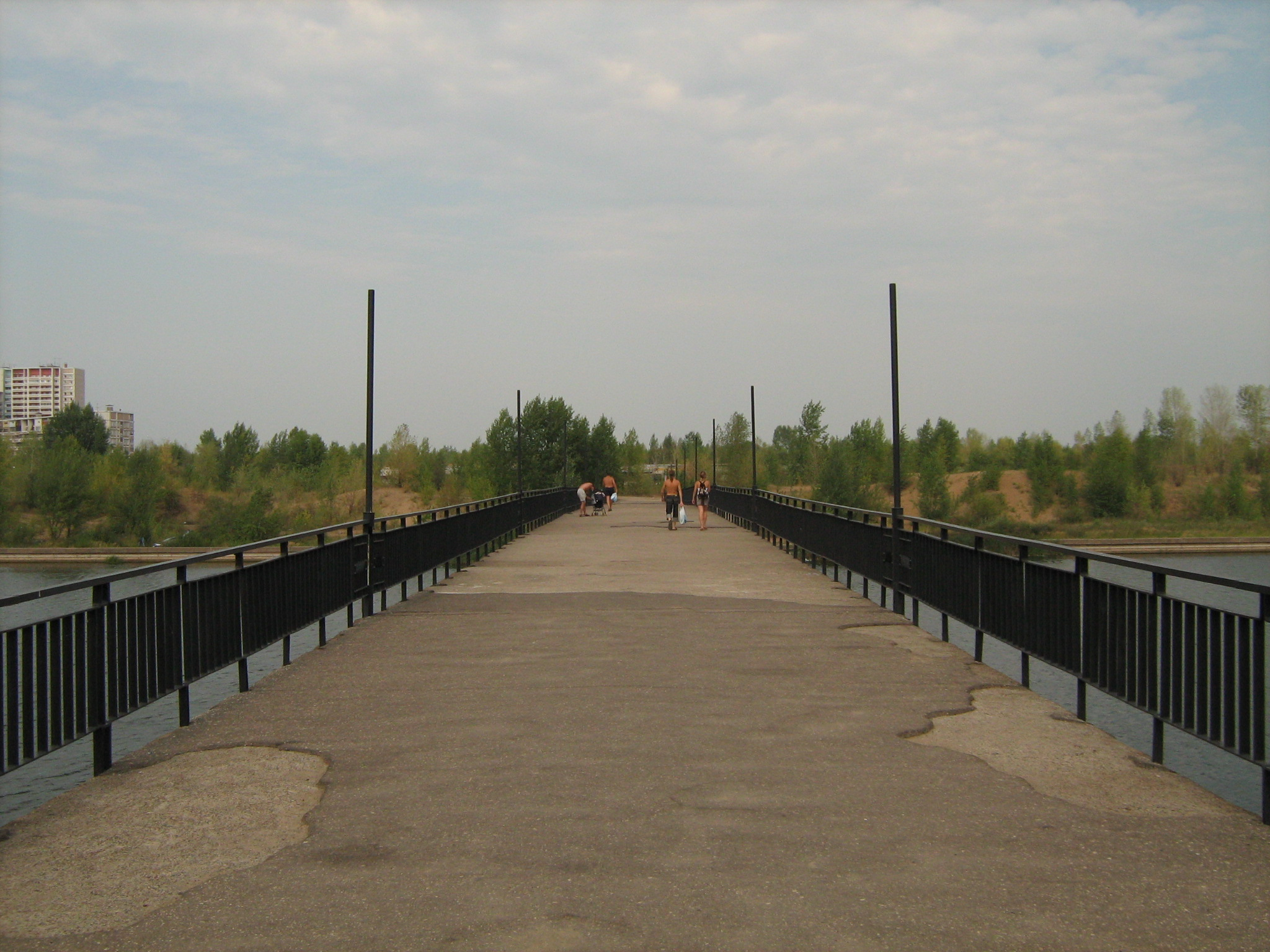 Bridge across Lake Mescherskoye, in Kanavinsky District of Nizhny Novgorod